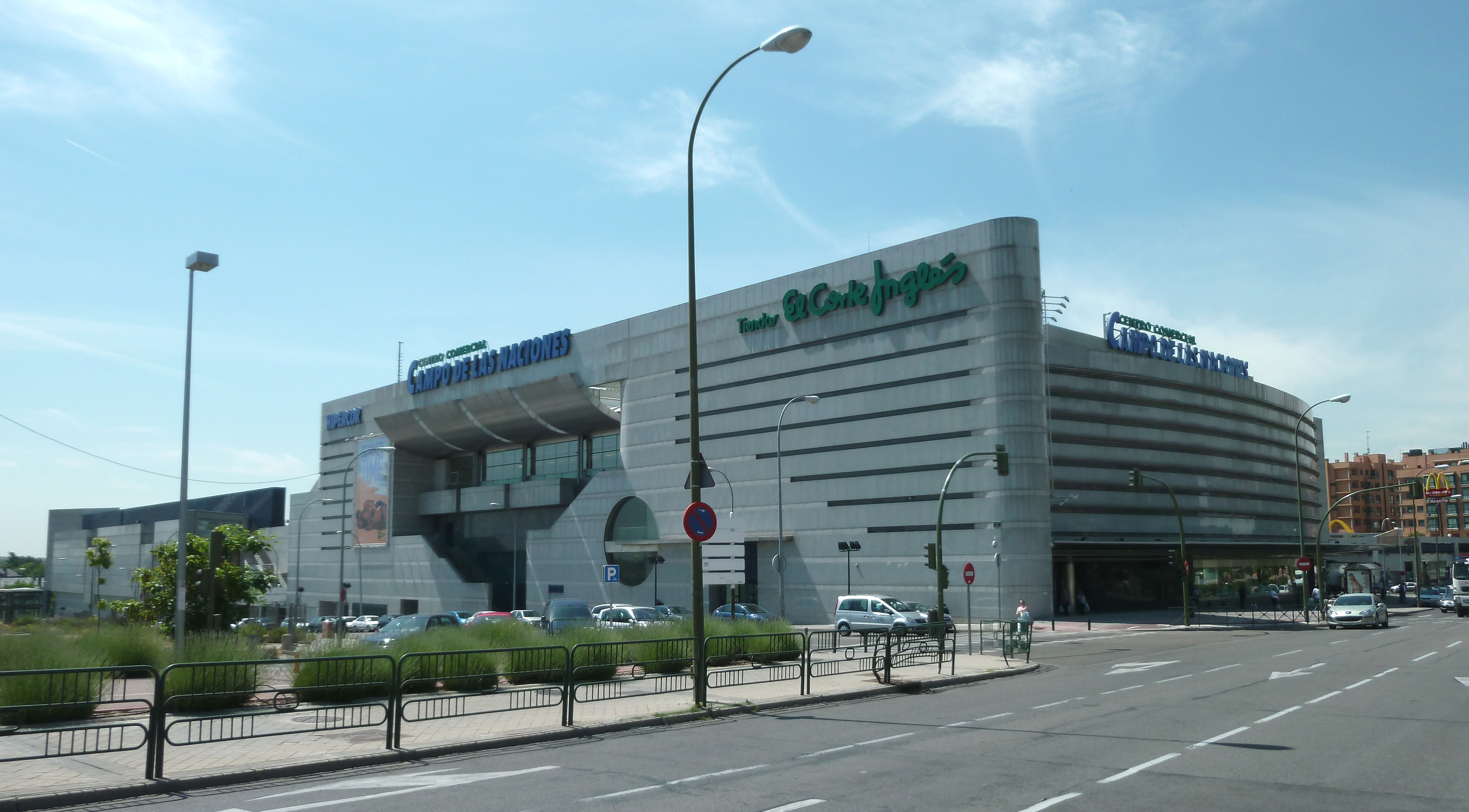 View of Centro Comercial Campo de las Naciones (a mall) in Madrid (Spain).